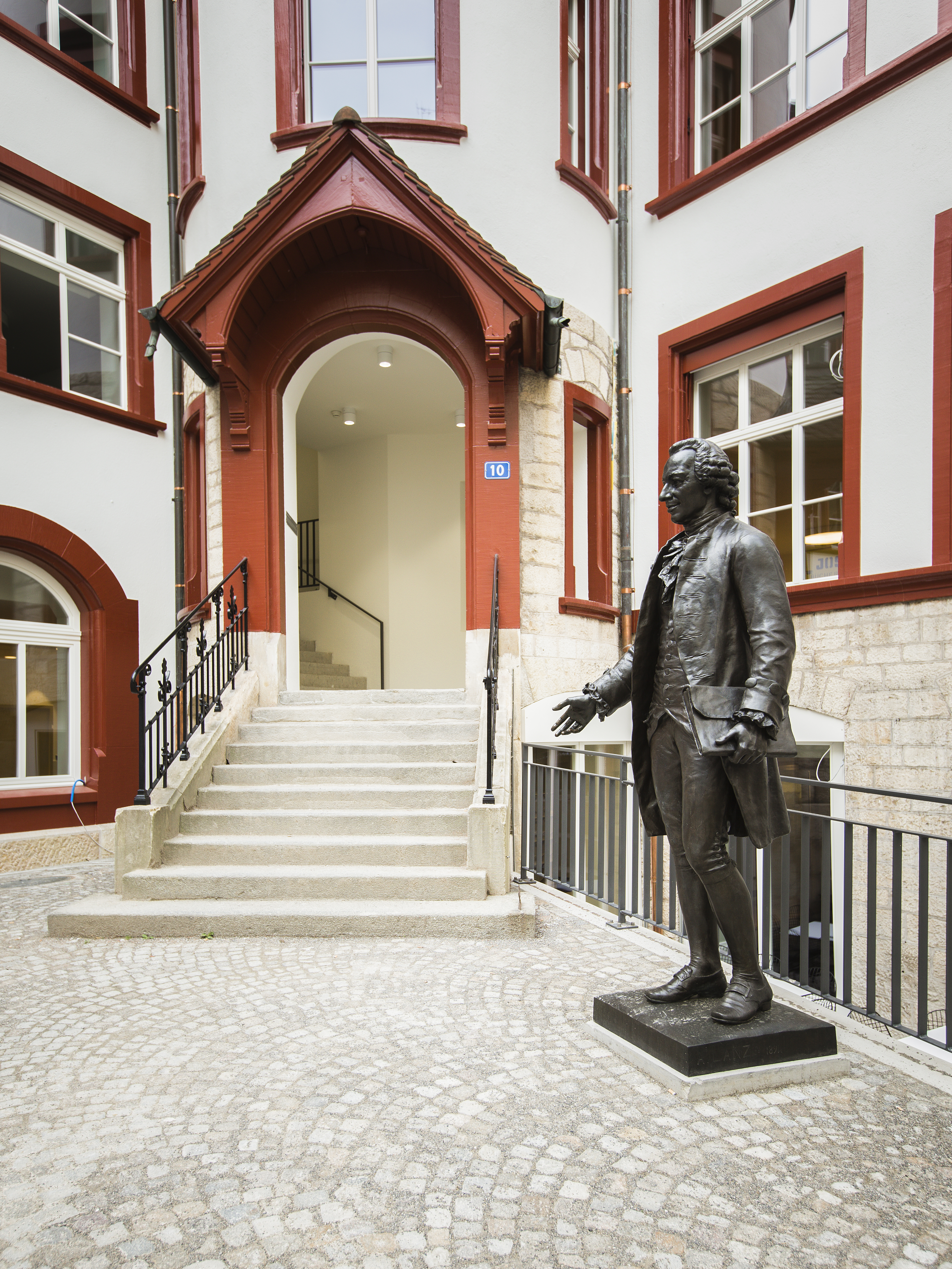 Picture: Stefan Bohrer for GGG - The new GGG City Library taken on April 29, 2015